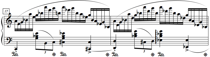 Excerpt from Chopin's Etude Op.25 No.11 (another section)